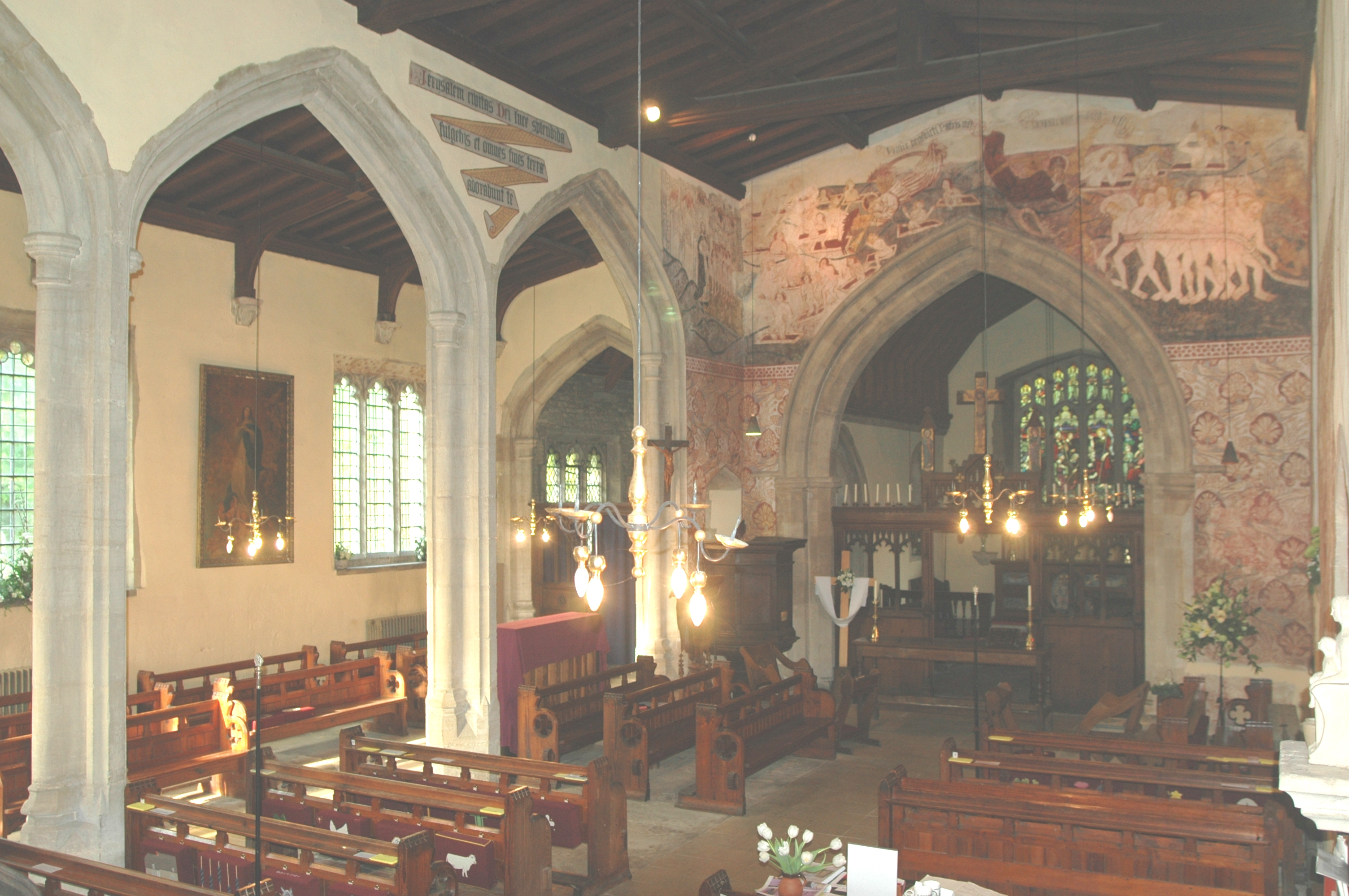 Church of England parish church of St James the Great, South Leigh, Oxfordshire: interior showing chancel arch, doom painting and part of north arcade.